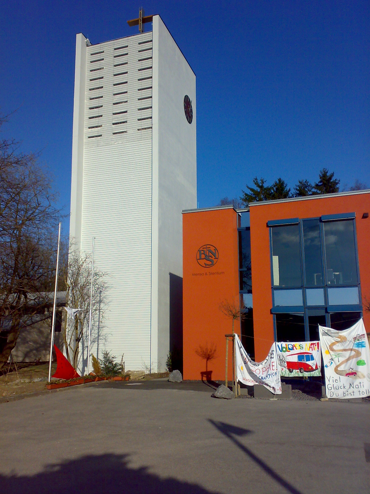 Bishop-Neumann-School in Königstein im Taunus, Germany